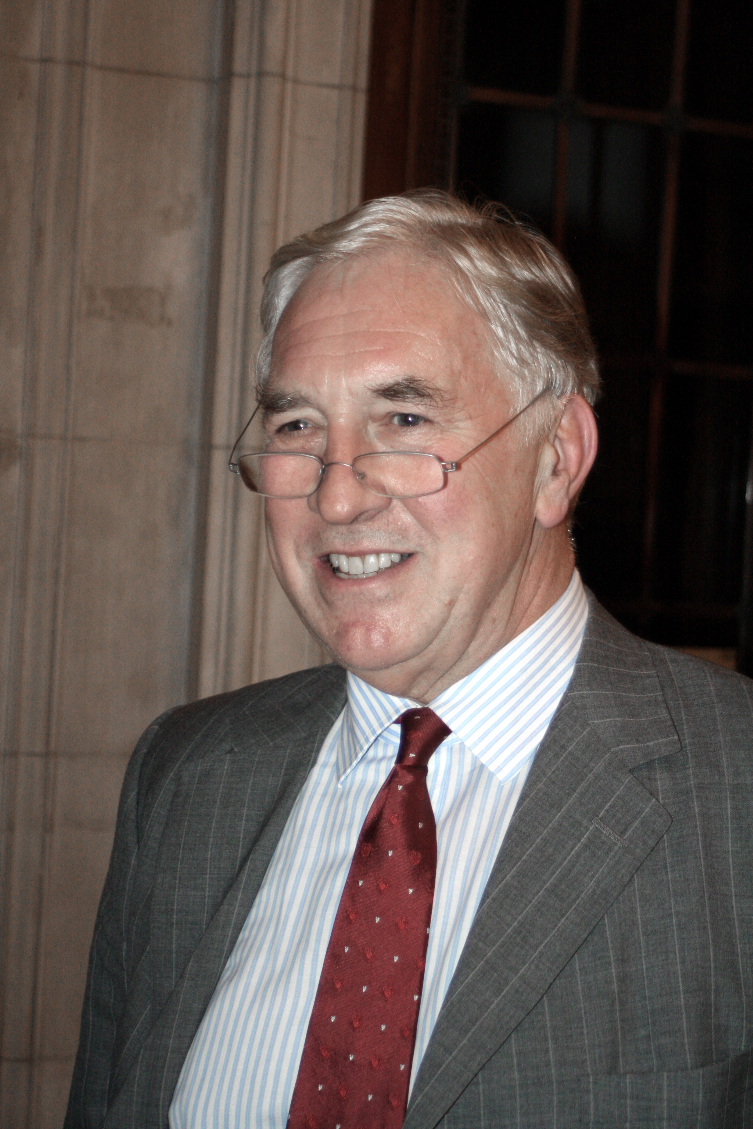 Philip Poole-Wilson, Professor of Cardiology, Royal Brompton Hospital and Imperial College (26 April 1943 – 4 March 2009)